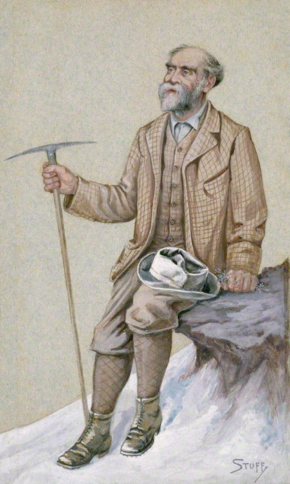 Caricature of The Rt Hon J Bryce MP. Caption read "Privy Councillor, Professor and Politician". Accompanying biography read "He has thought and travelled a good deal, writing of 'The American Continent', and other more or less obscure places and things; so that he naturally delights in Irish difficulties, longs to extend rural government, advocates the development of secondary education, upholds open spaces, is zealous for access to Scottish mountains, and full of anxiety to do something for the Americans".